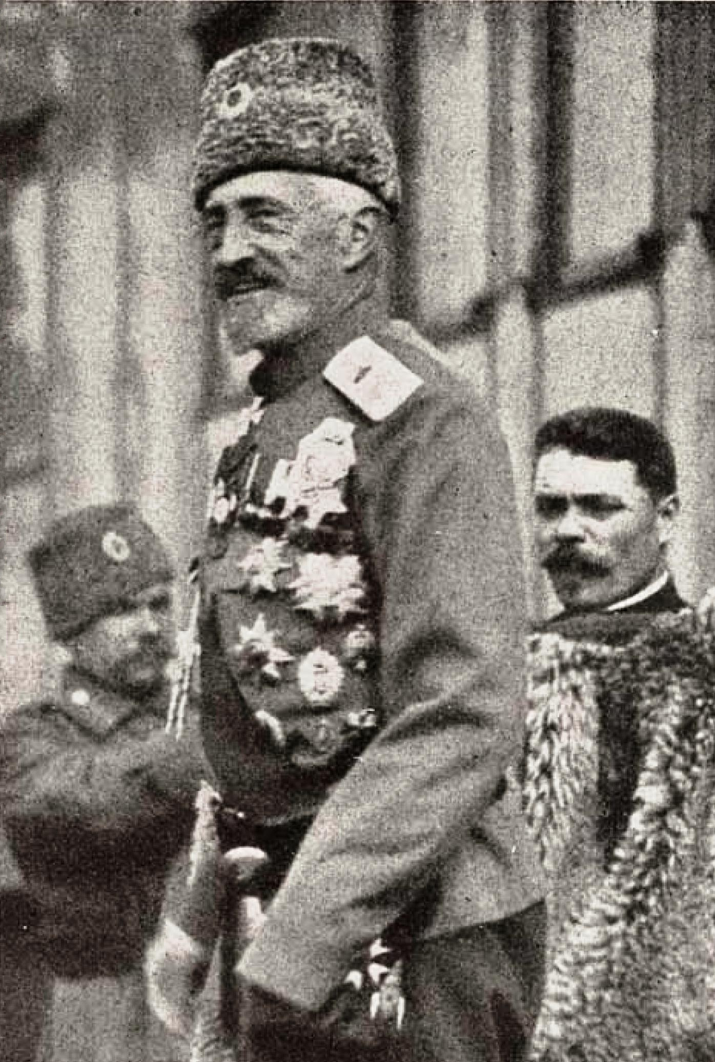 Grand Duke Nicholas Nikolaevich of Russia (1856–1929) (The German caption reads "Grand Duke (lit. "Great Prince") Nikolaievich in the Caucasus")